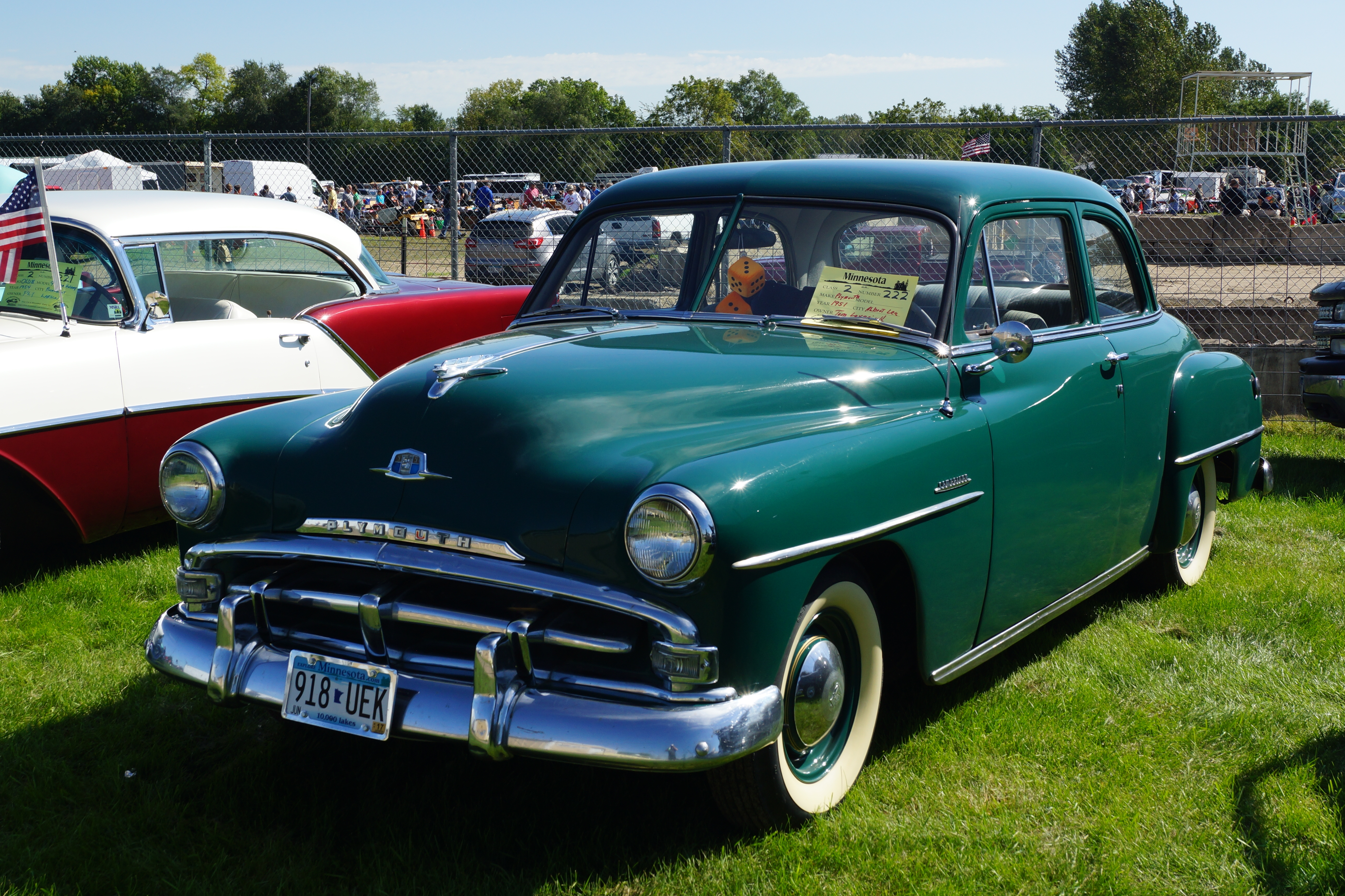 Auto Restorers Club of Southern Minnesota 40th Annual Car Show & Swap Meet Nicollet County Fairgrounds St. Peter, Minnesota September 2016 Click here for more car pictures at my Flickr site.